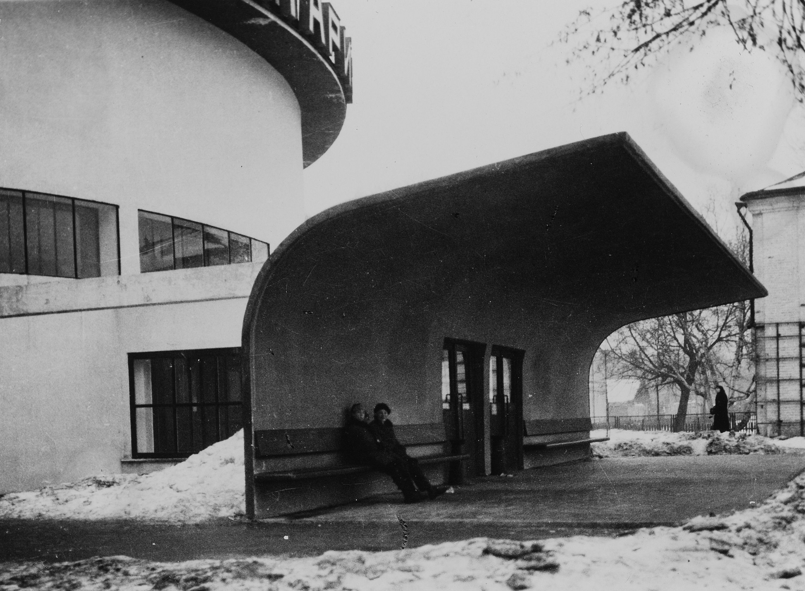 Barsch Planetarium entrance, in Moscow. Constructivist architecture in Russia, in 1930s photograph.